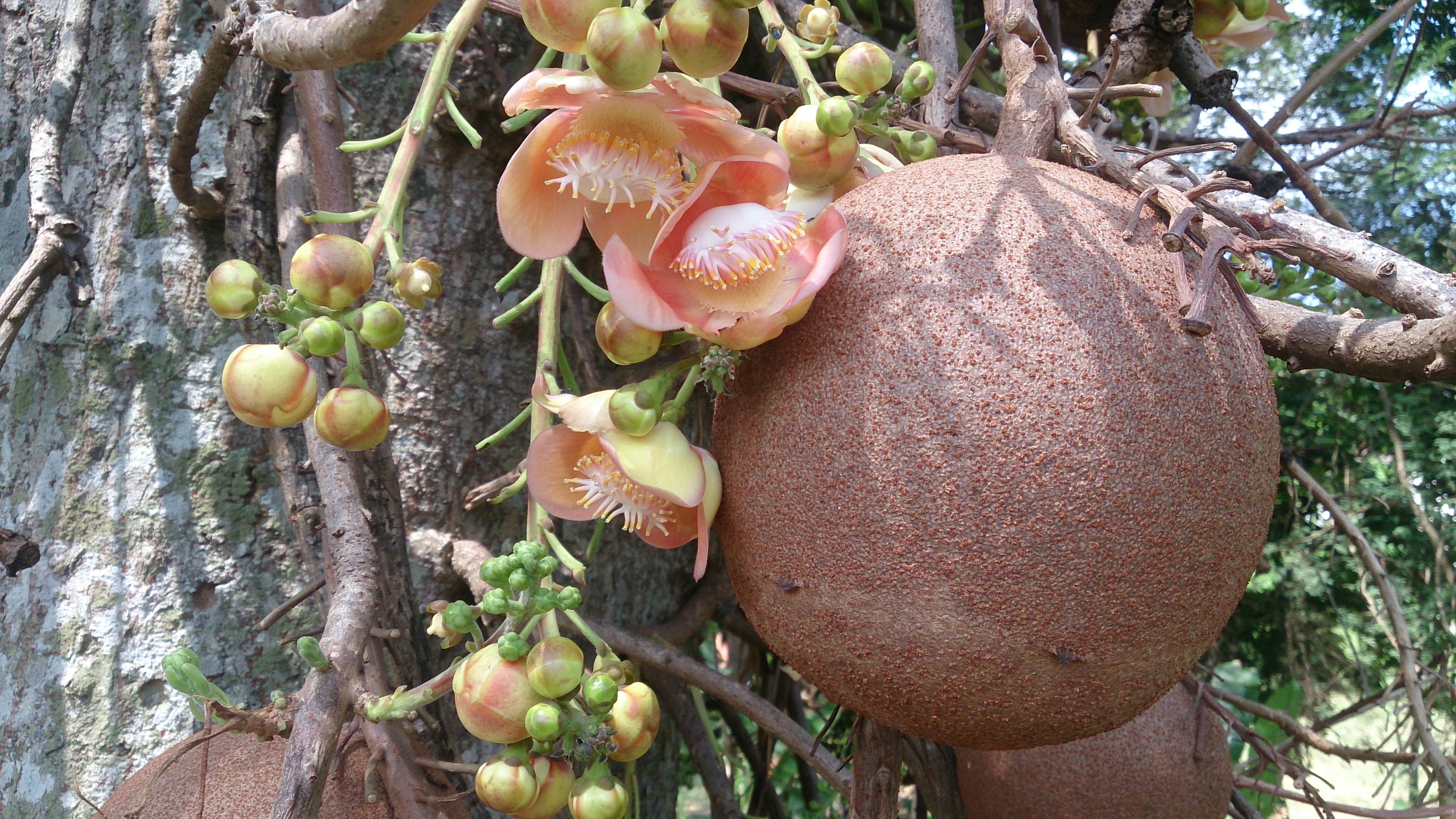 Couroupita guianensis. Common name: Cannonball Tree.